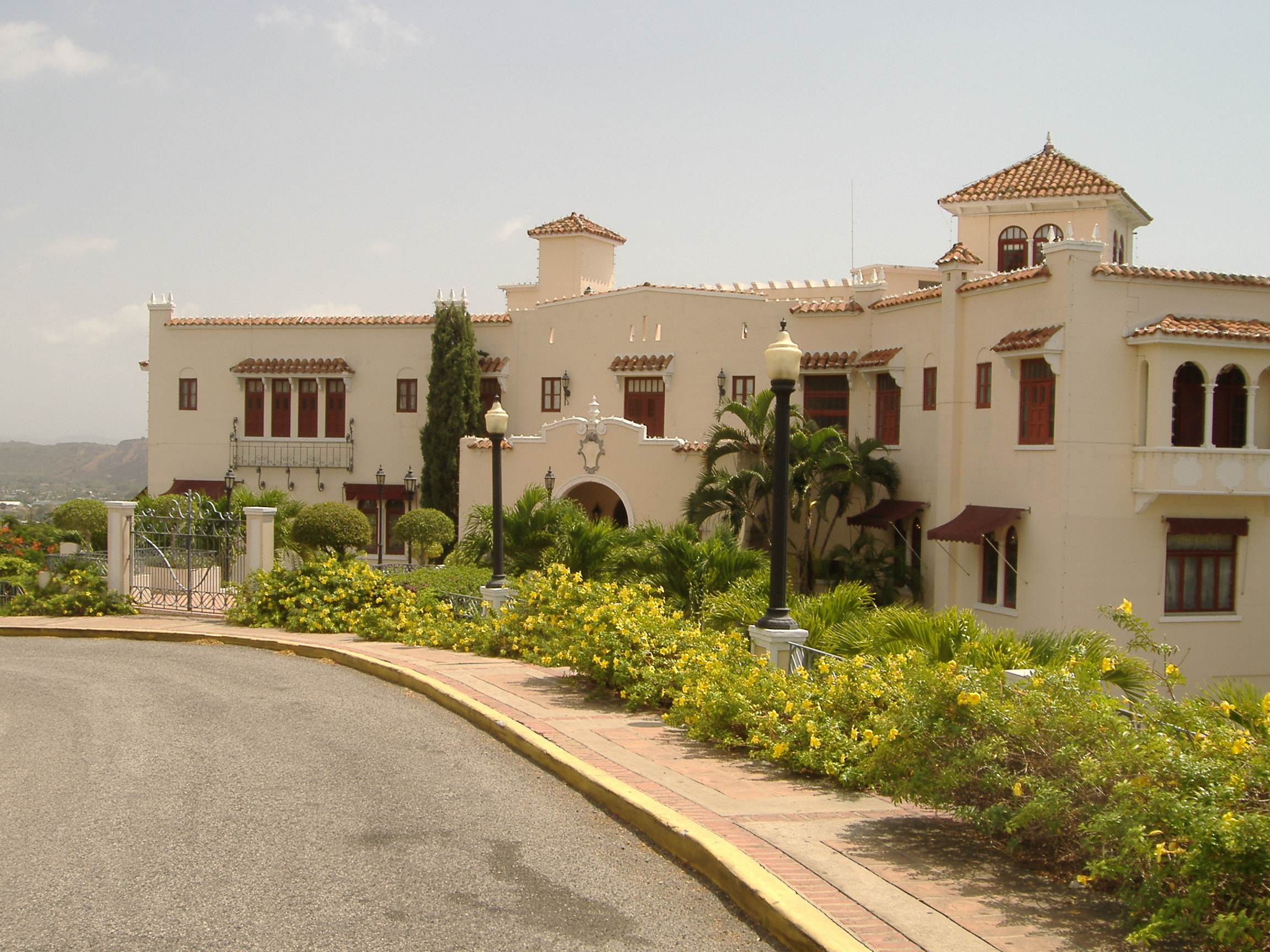 Street facade of the Castillo Serrallés — historic mansion, gardens, and present day historic house museum, overlooking Ponce, in southern Puerto Rico. The Spanish Colonial Revival style residence was completed in 1930, and is on the National Register of Historic Places in Ponce, Puerto Rico.